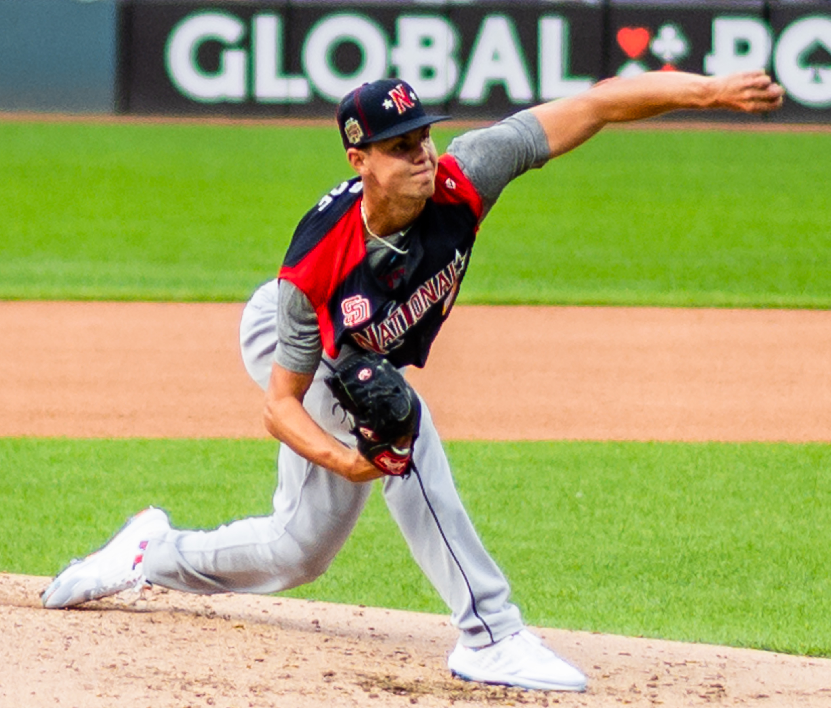 Mackenzie Gore delivers a pitch at the 2019 All-Star Futures Game at Progressive Field in Cleveland